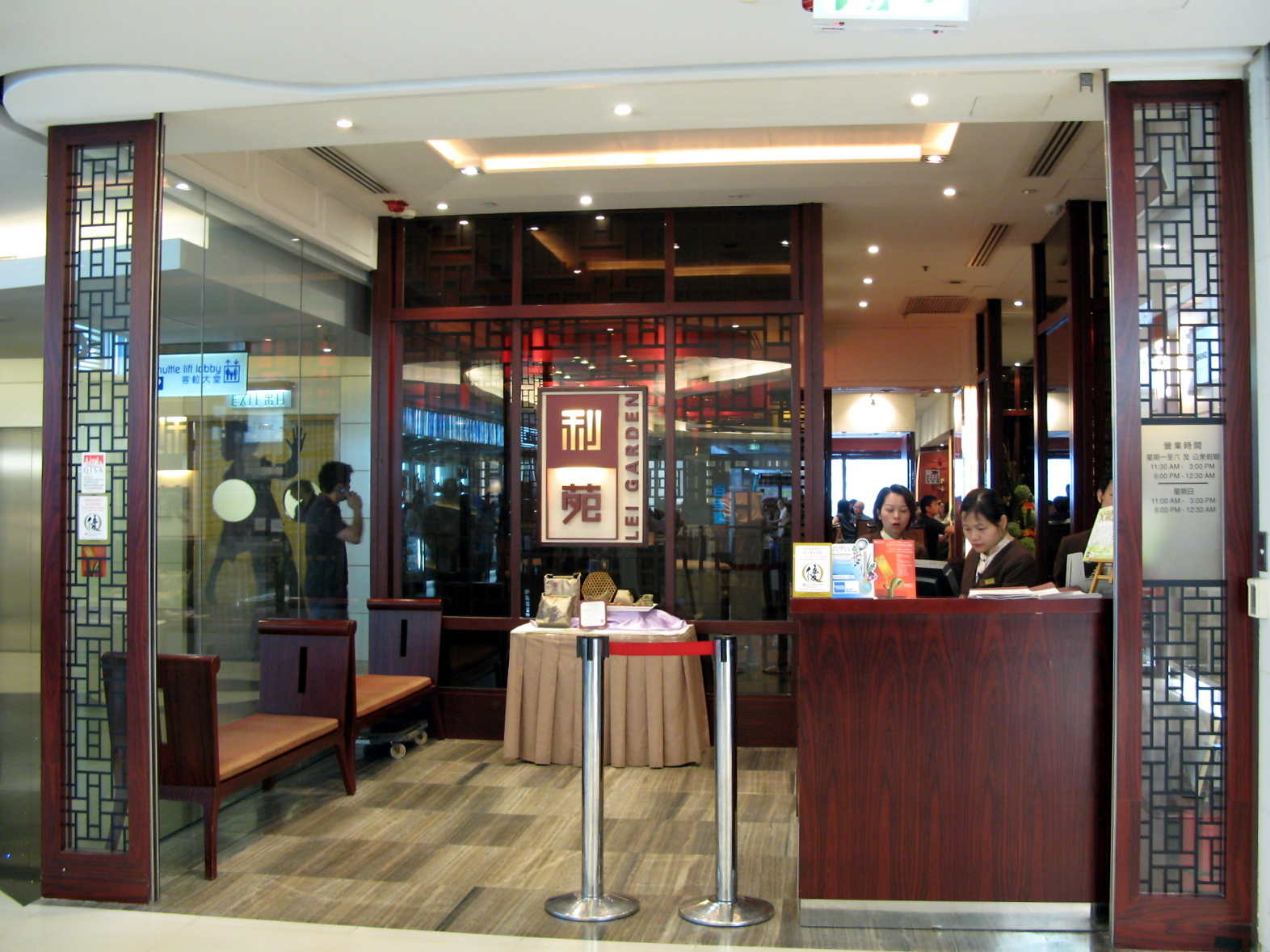 HK Lei Garden Garden Restaurant apm store.